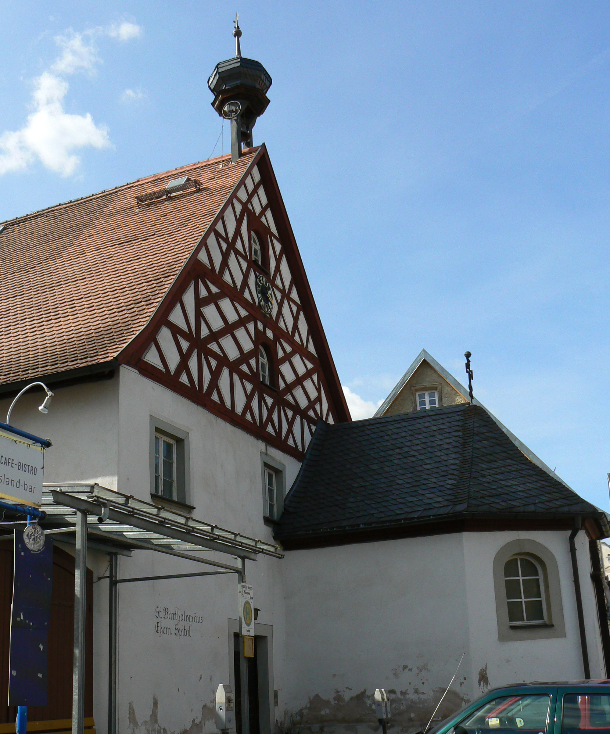 view of Hollfeld, Germany